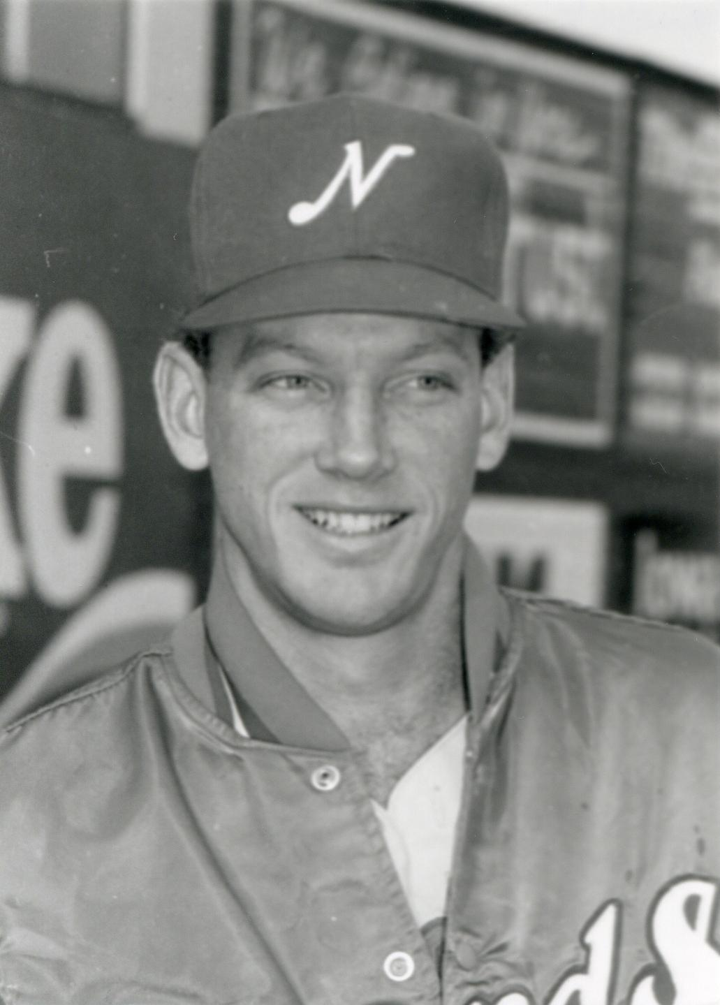 Van Snider, an outfielder for the minor league Nashville Sounds, before a game at Herschel Greer Stadium in 1988